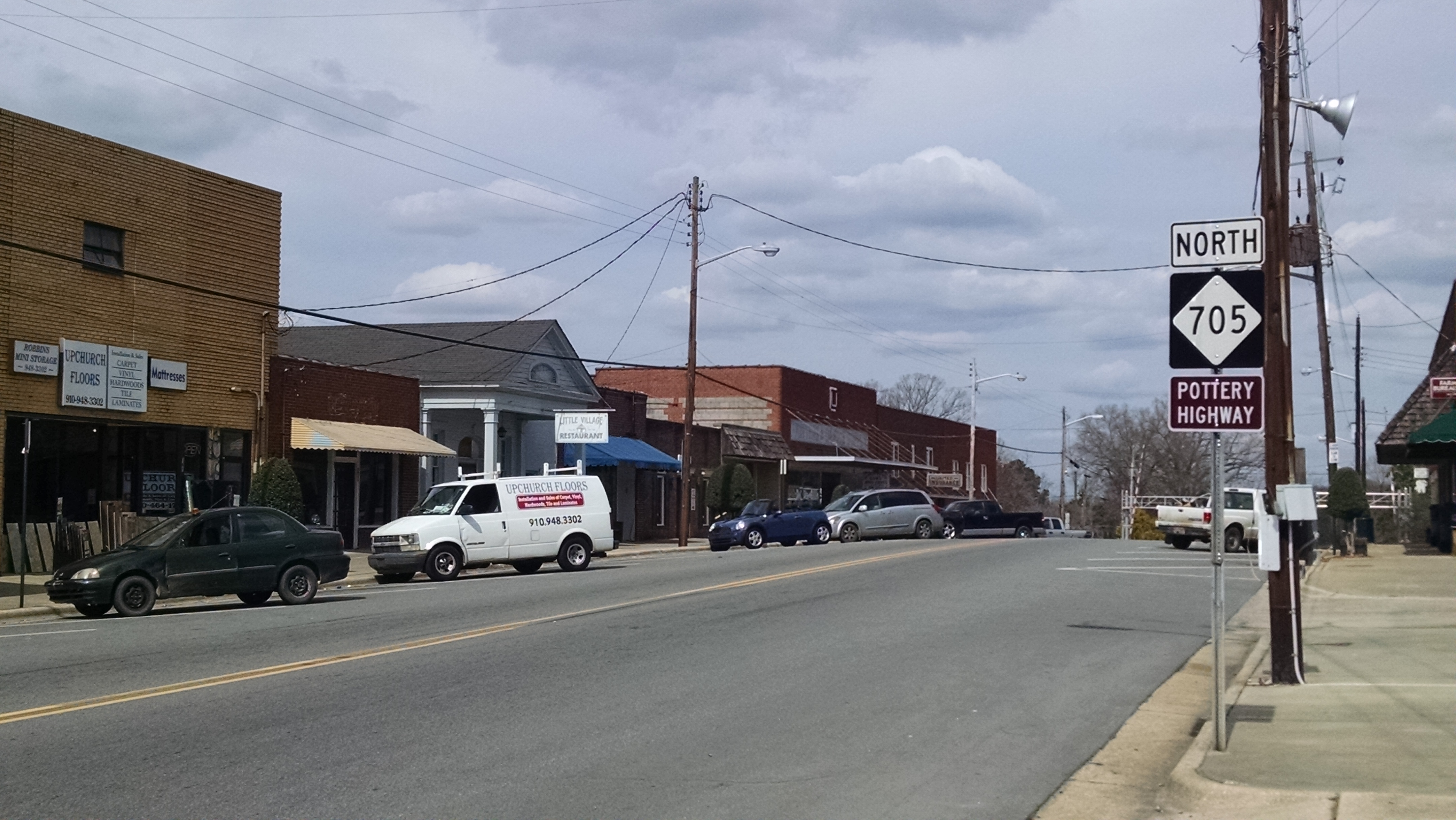 Downtown Robbins, North Carolina along North Carolina Highway 705